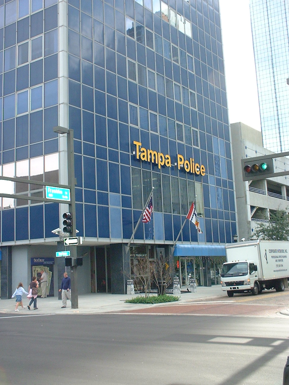 The Tampa Police Building in downtown.